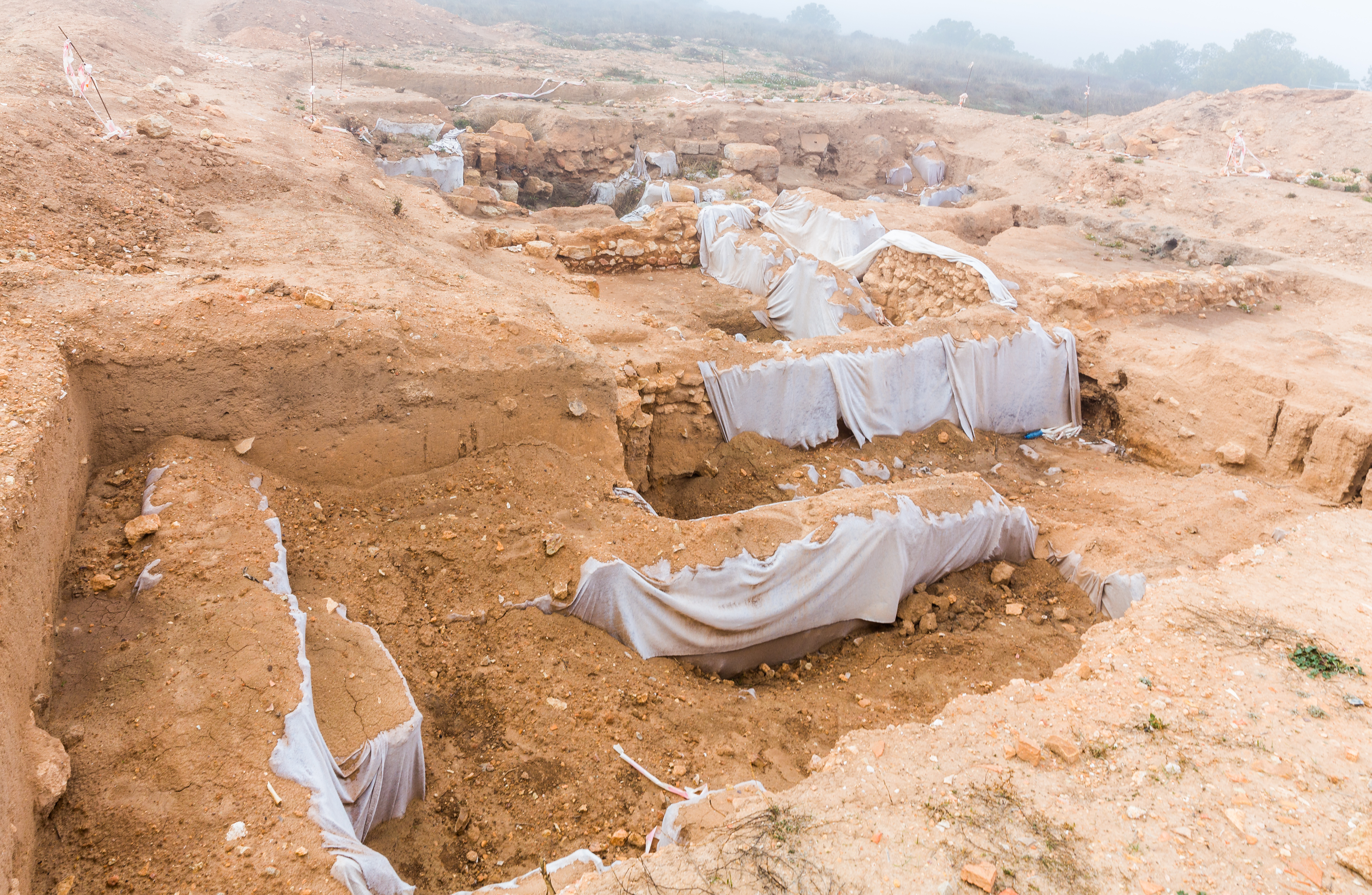 Archaeological site of Our Lady of Pueyo, Belchite, Zaragoza, Spain